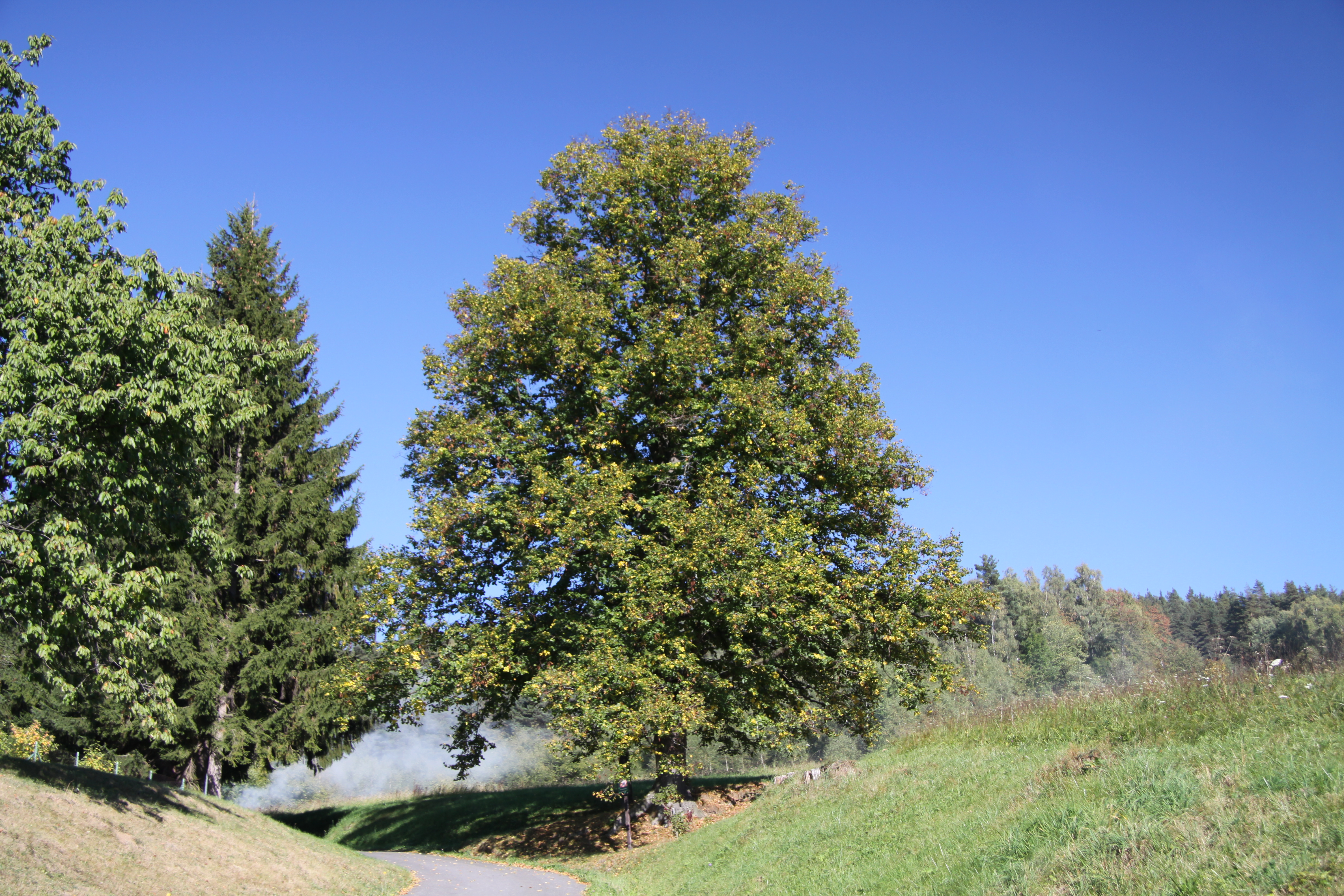 Famous tree called "Lípa v Horním Záblatí". Horní Záblatí village in Prachatice District, Czech Republic Project: Chráněná území.